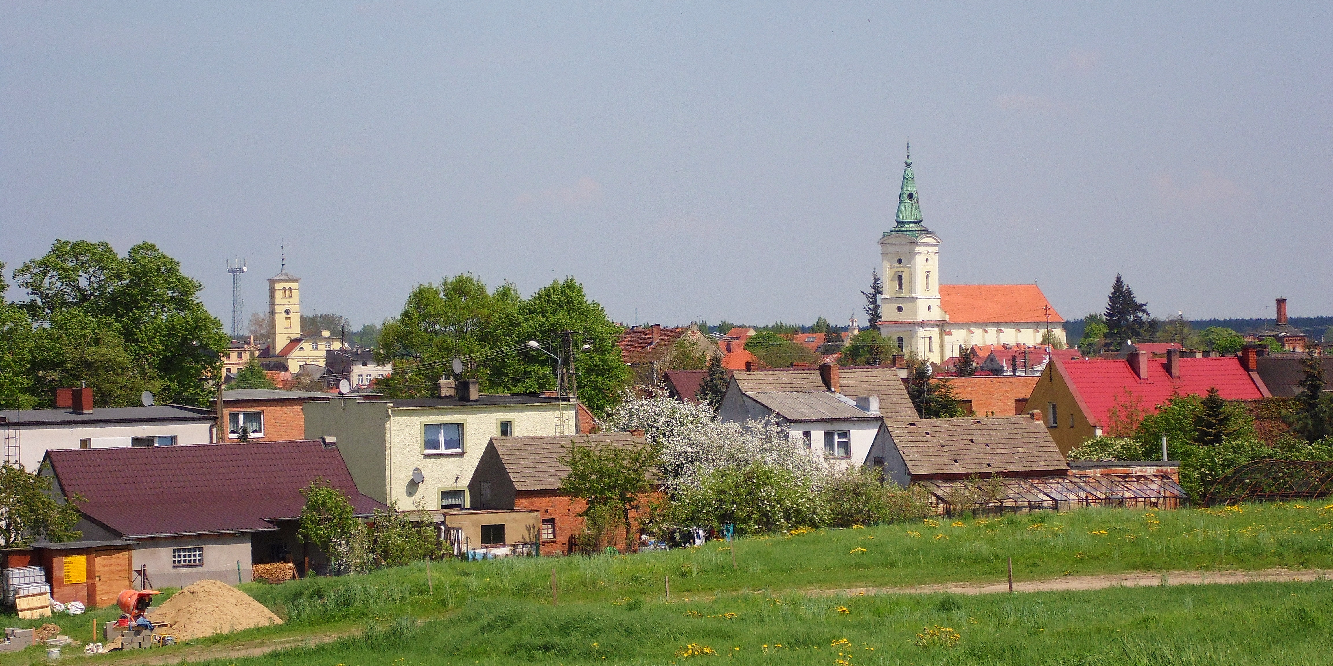 Poniec - pan / area. gostyński / province. Greater Poland / Poland